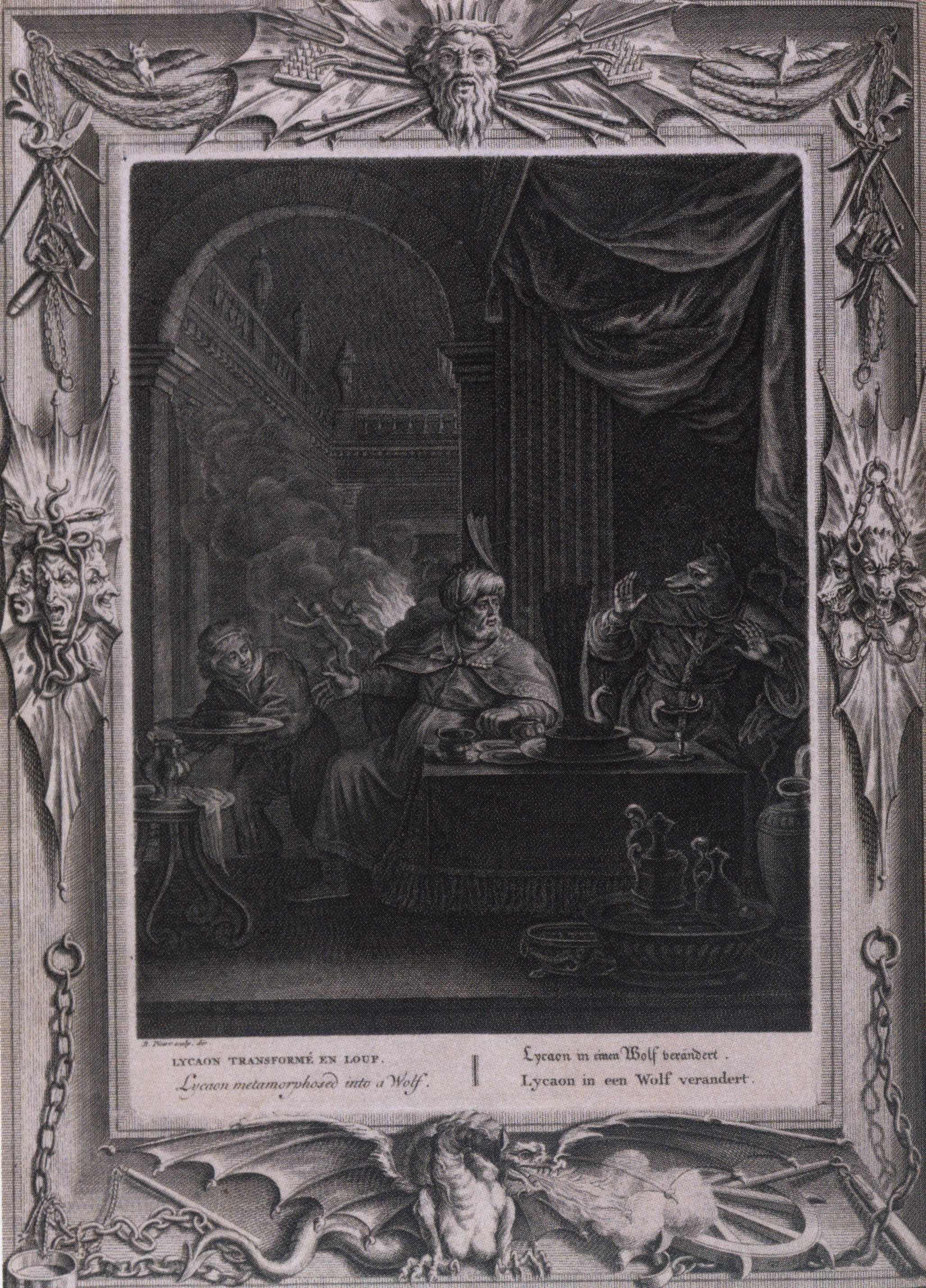 Work by B. Picart depicting the myth of Lycaon. Eighteenth century.